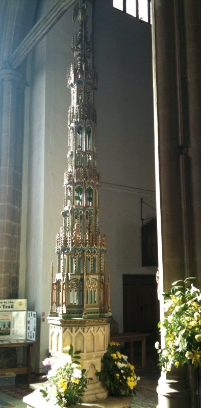 The 15th century font cover, St Nicholas, North Walsham